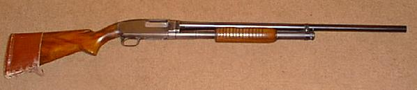 Winchester Model 1912 (Model 12) take-down slide-action (pump-action) 12 gauge shotgun manufactured in 1948 (has 1950's after-market pad installed on stock)